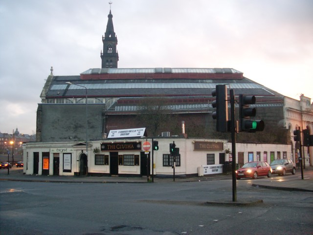 The Clutha Vaults Bar on Stockwell Street, sandwiched between Bridgegate and Clyde Street. Behind it is the former Briggait fish market.